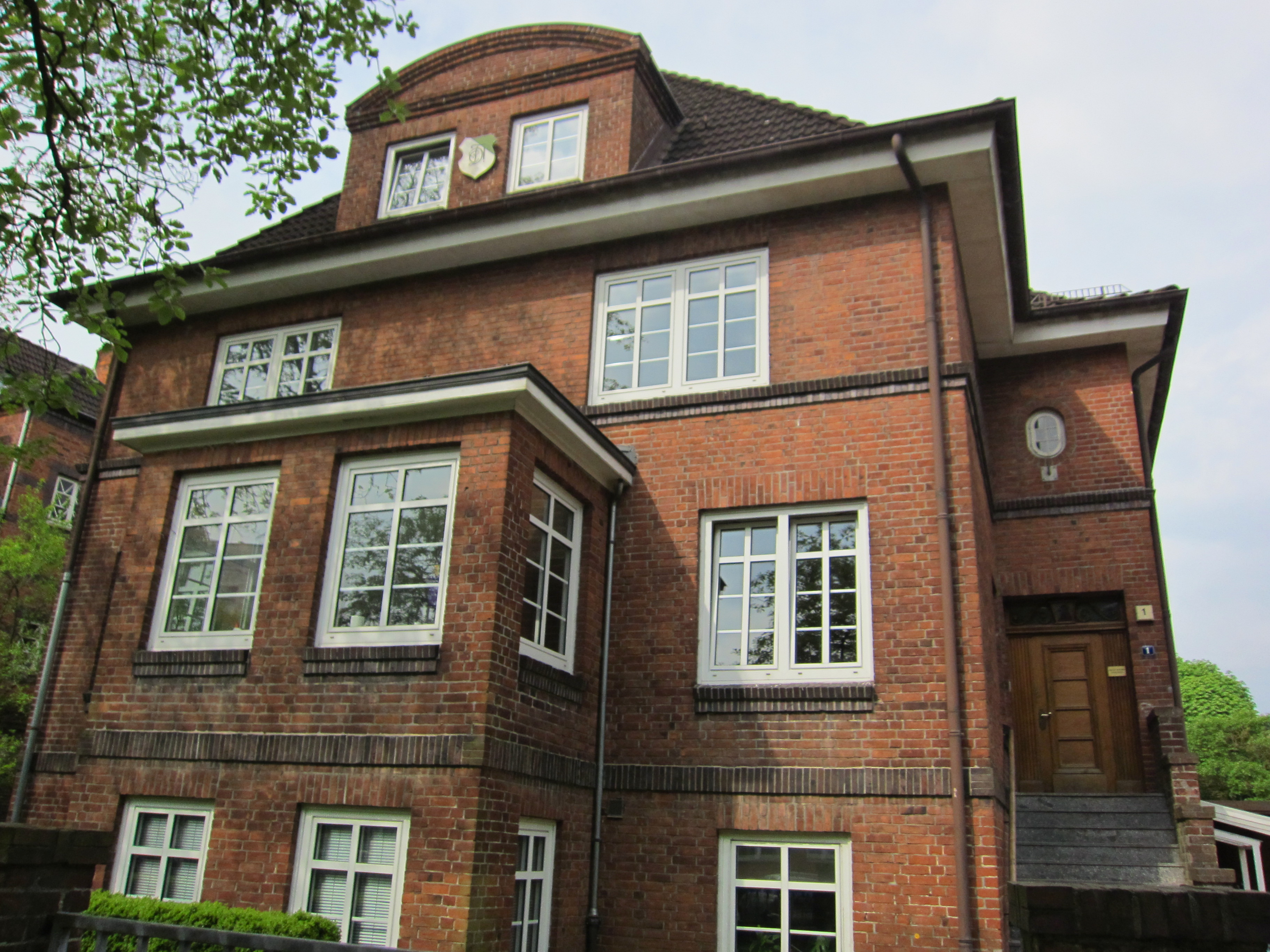 Fraternity "ATV Ditmarsia Kiel" in Kiel-Ravensberg